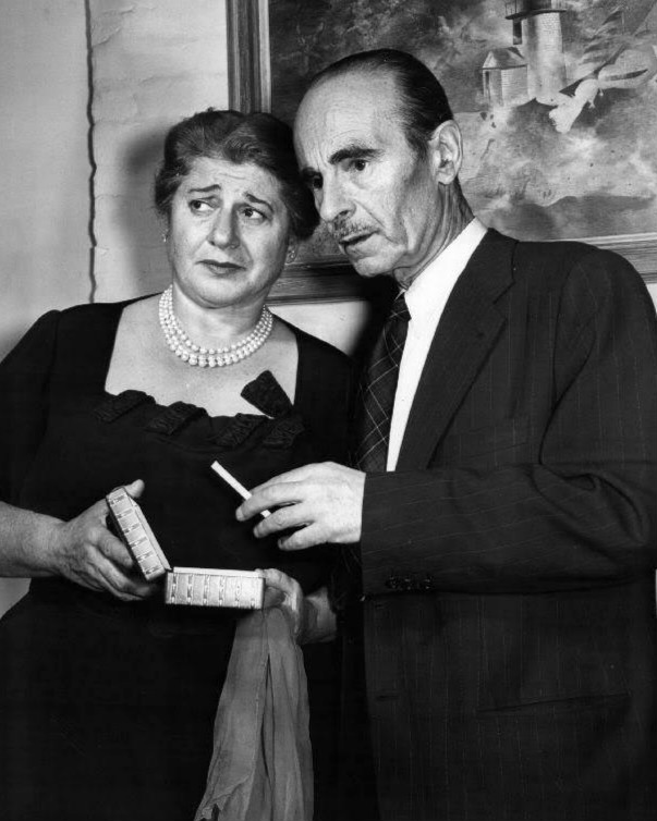 Photo of Gertrude Berg and Mikhail Rasumny in the drama Hearts and Hollywood on The Elgin Hour.